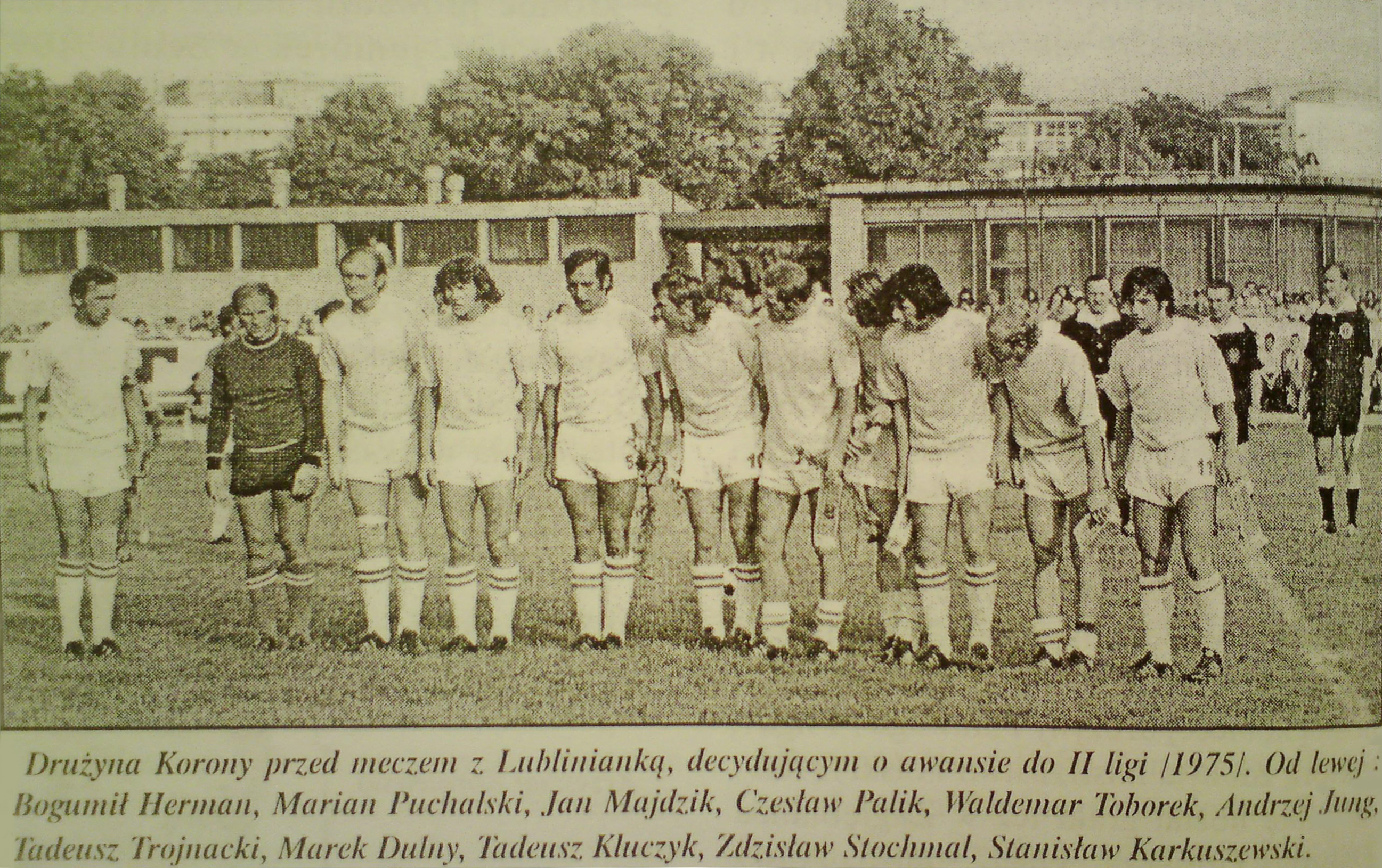 Korona Kielce przed meczem z Lublinianką w 1975 roku